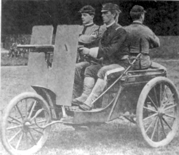 Davidson Duryea gun carriage of 1899